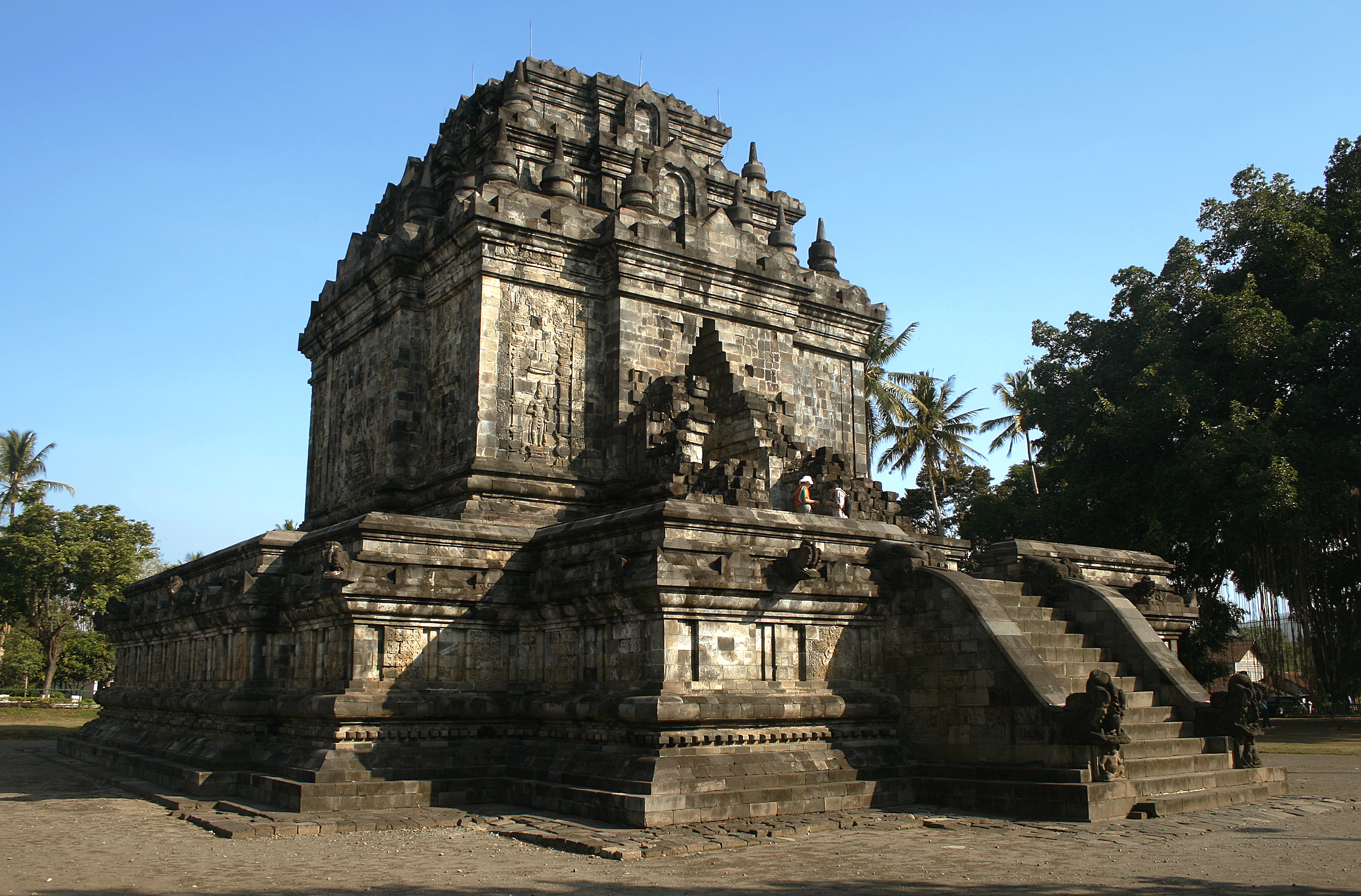 Mendut Temple, near Borobudur, Magelang, Central Java, Indonesia